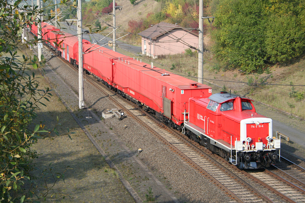 A rescue train is being moved on the Würzburg–Hannover line near Niederaula to ensure that it works properly. These six trains were mainly built for tunnel emergencies on the Hannover–Würzburg and Mannheim–Stuttgart high-speed lines (opened in 1991). The newer high-speed lines were equipped with a more sophisticated rescue system (such as emergency exits), so no further trains of these kind have been built afterwards.